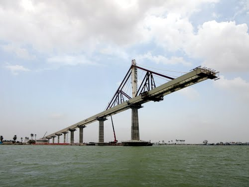 الجسر المعلق في البصرة جنوب العراق